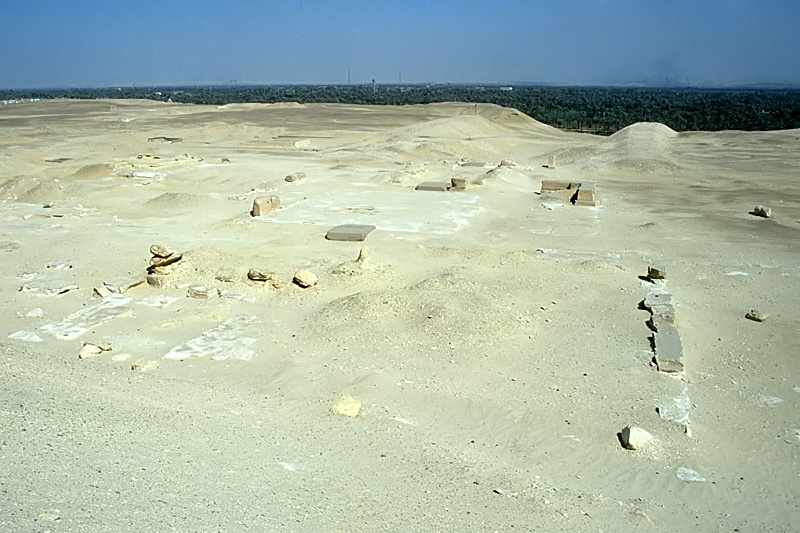 Offering temple, view to the east, south pyramid of Sesostris I, Lisht, Egypt